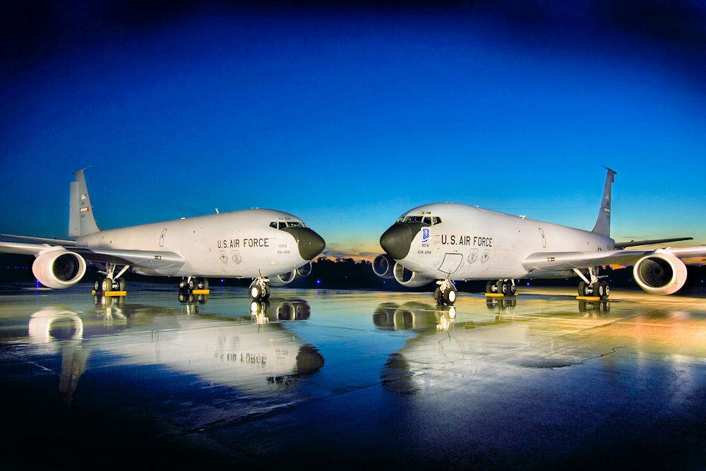 Two KC-135R Stratotankers at Grissom Air Reserve Base, Indiana, USA. (U.S. Air Force photo)